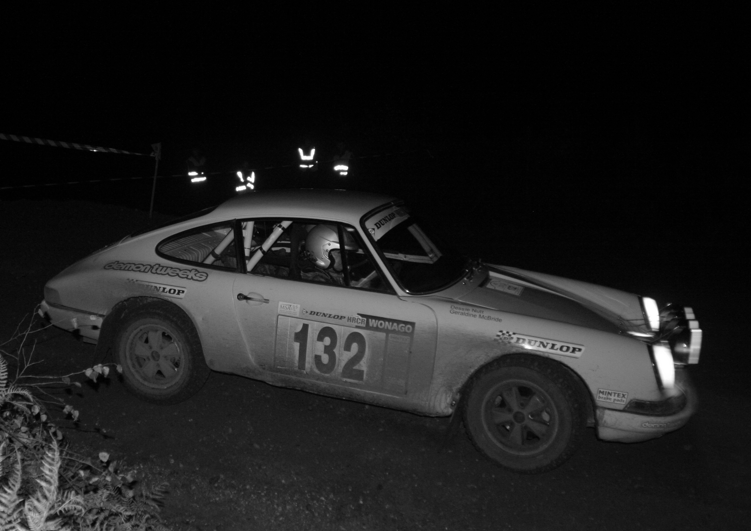 Tempest Rally (485)